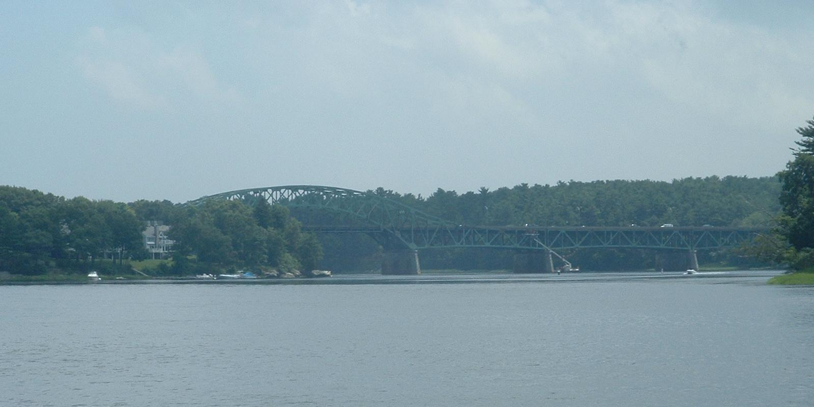 A view of the Whittier Memorial Bridge from Main Street in Amesbury.